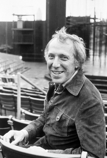 This is a photograph of Bernard Gersten sitting in the Delacorte Theatre in Central Park when he served as the Associate Producer of the New York Shakespeare Festival/The Public Theater.